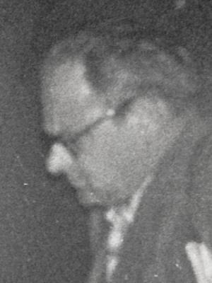 Semen Furman, European Championship 1961 at Oberhausen, Photographer Gerhard Hund.